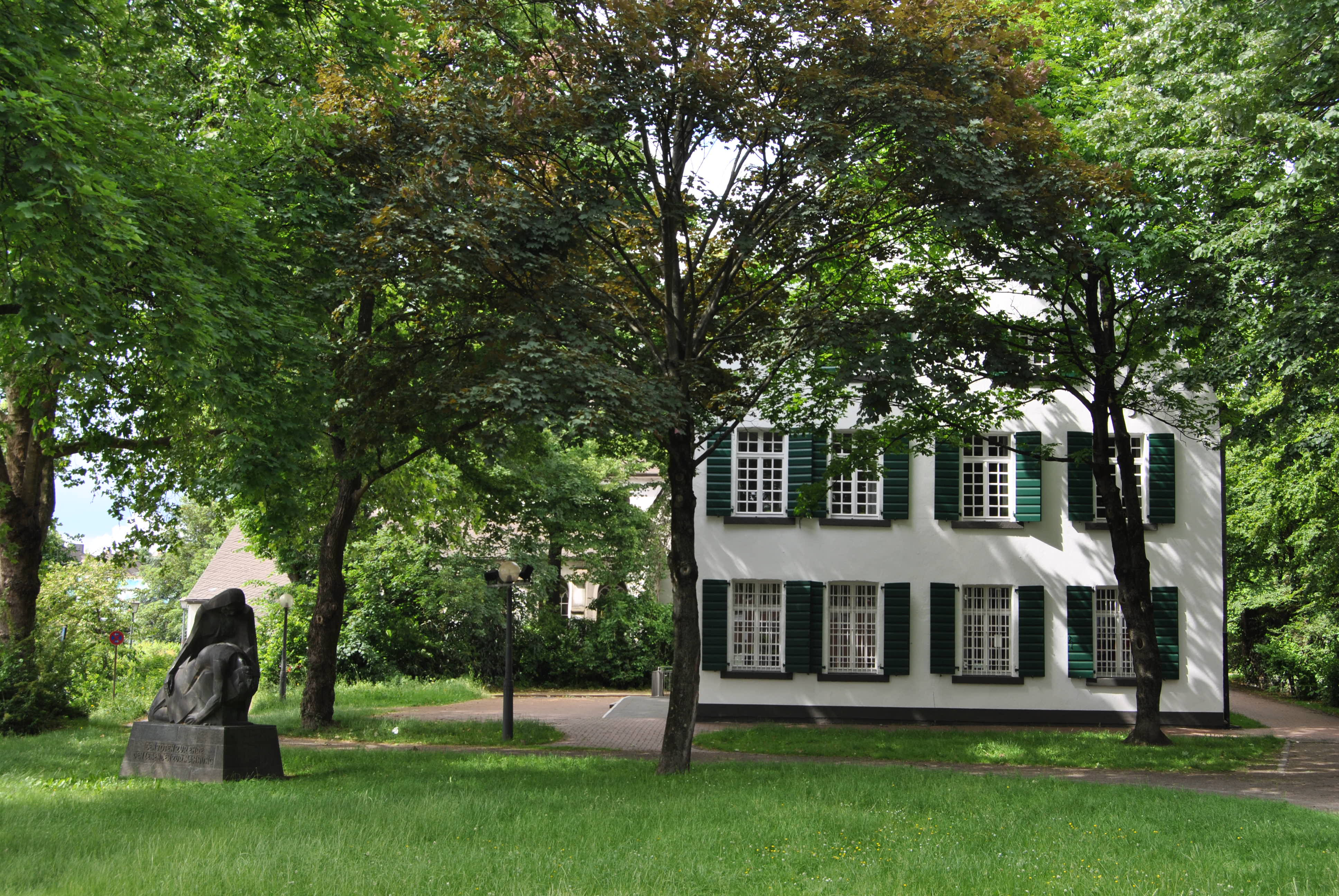 This photograph was taken with a Nikon D3000. Der Oberhof in Duisburg-Beeck